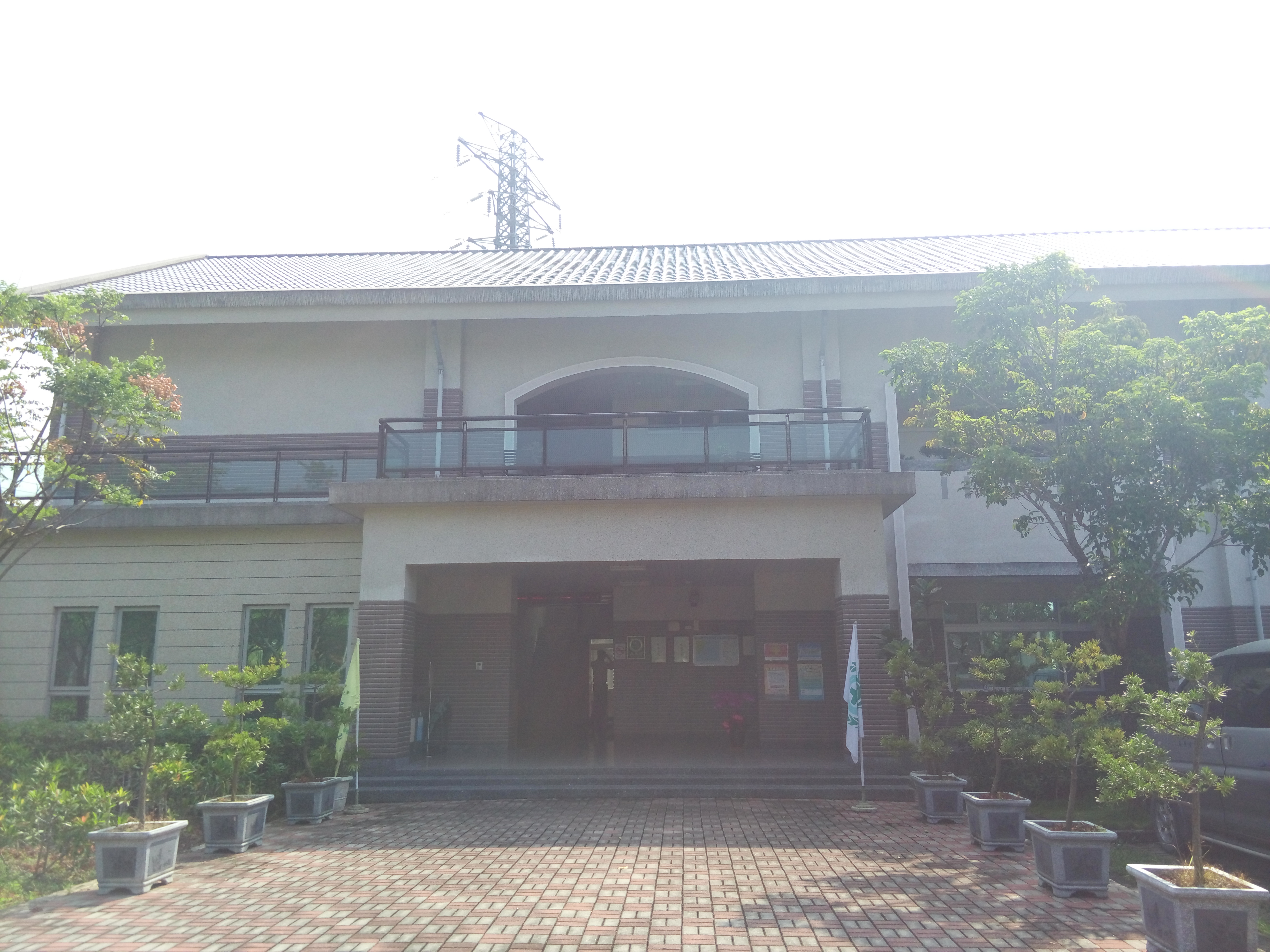 Kao-Ping Hydropower Plant, Taiwan Power Company HQ